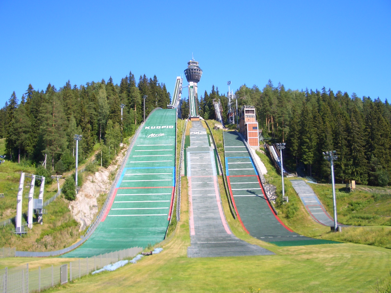 Ski jumping hills at Puijo, in the city of Kuopio, Finland